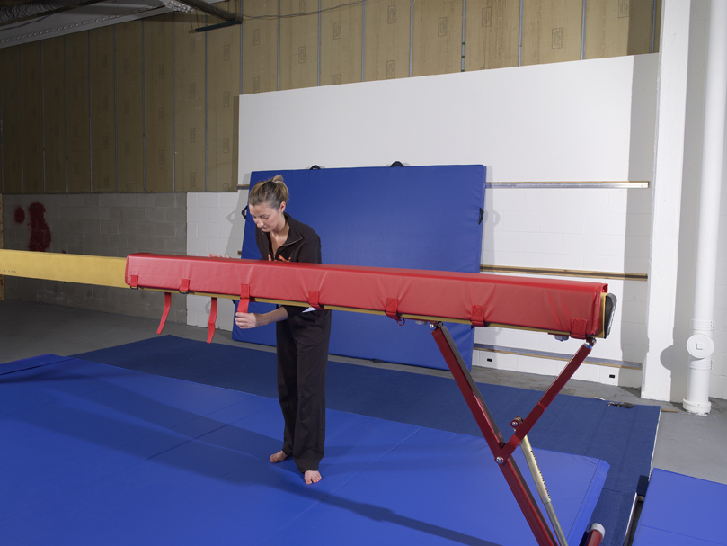 Beam safety wrap manufactured by Mancino being attached to balance beam.